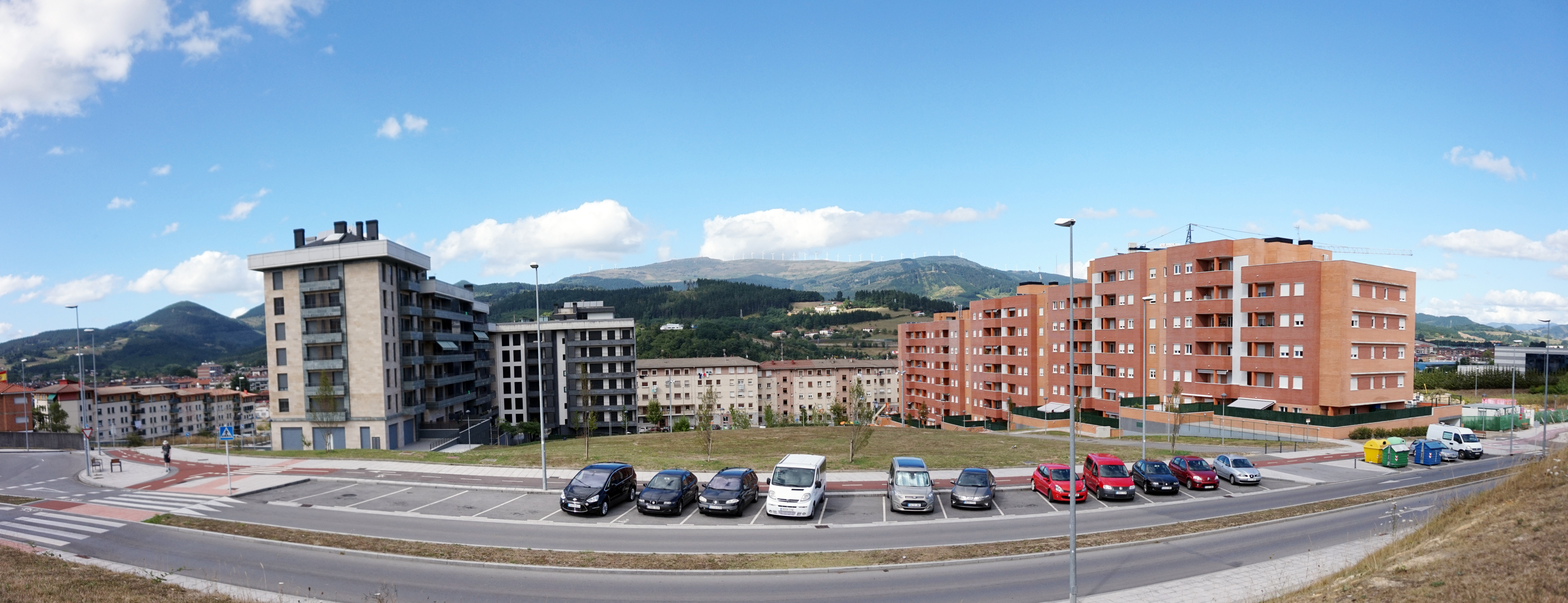 The street Montorreta Kalea in Durango, Spain. This photograph was taken with a Sony Alpha a5000.